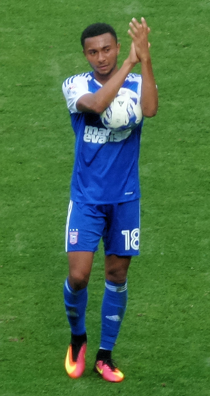 Grant Ward playing on his Ipswich Town debut against Barnsley on 6 August 2016